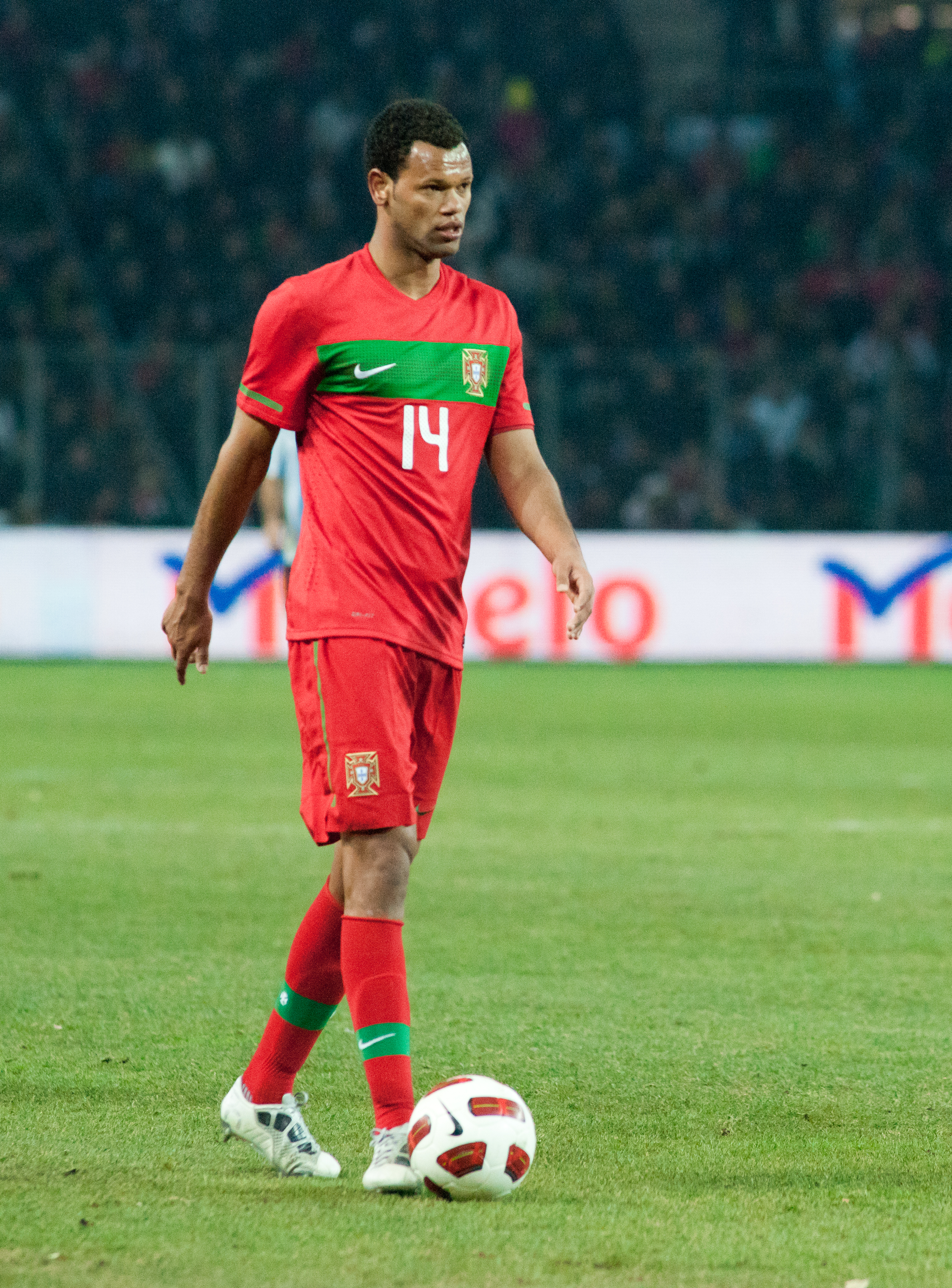 Rolando Jorge Pires da Fonseca, Portugal vs. Argentina, 9th February 2011.